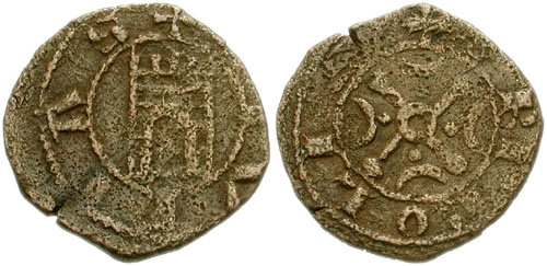 Crusaders, Tripoli. Raymond III. 1173/4-1187. Æ Pougeoise (17mm,1.33 g, 6h). +CIVITAS, Gateway with five courses of masonry, five crenellations, and large divided(?) doorway +TRIPOLIS, X-shaped design with central annulet and pelleted bars; crescent above pellet in each quarter. Cf. Metcalf, Crusades, 523-527; CCS 13. VF, light roughness.